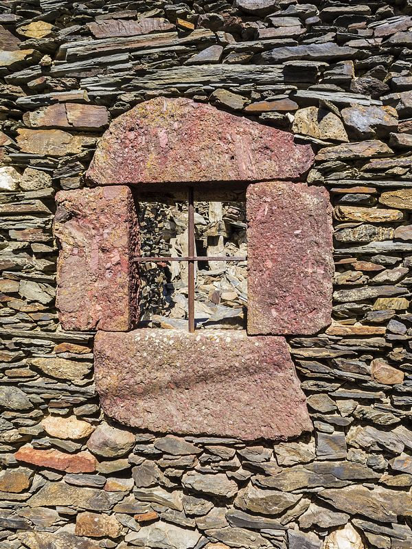 Detalle de ventana en Becerril. Ruta de los pueblos rojos, negros y amarillos de Segovia.